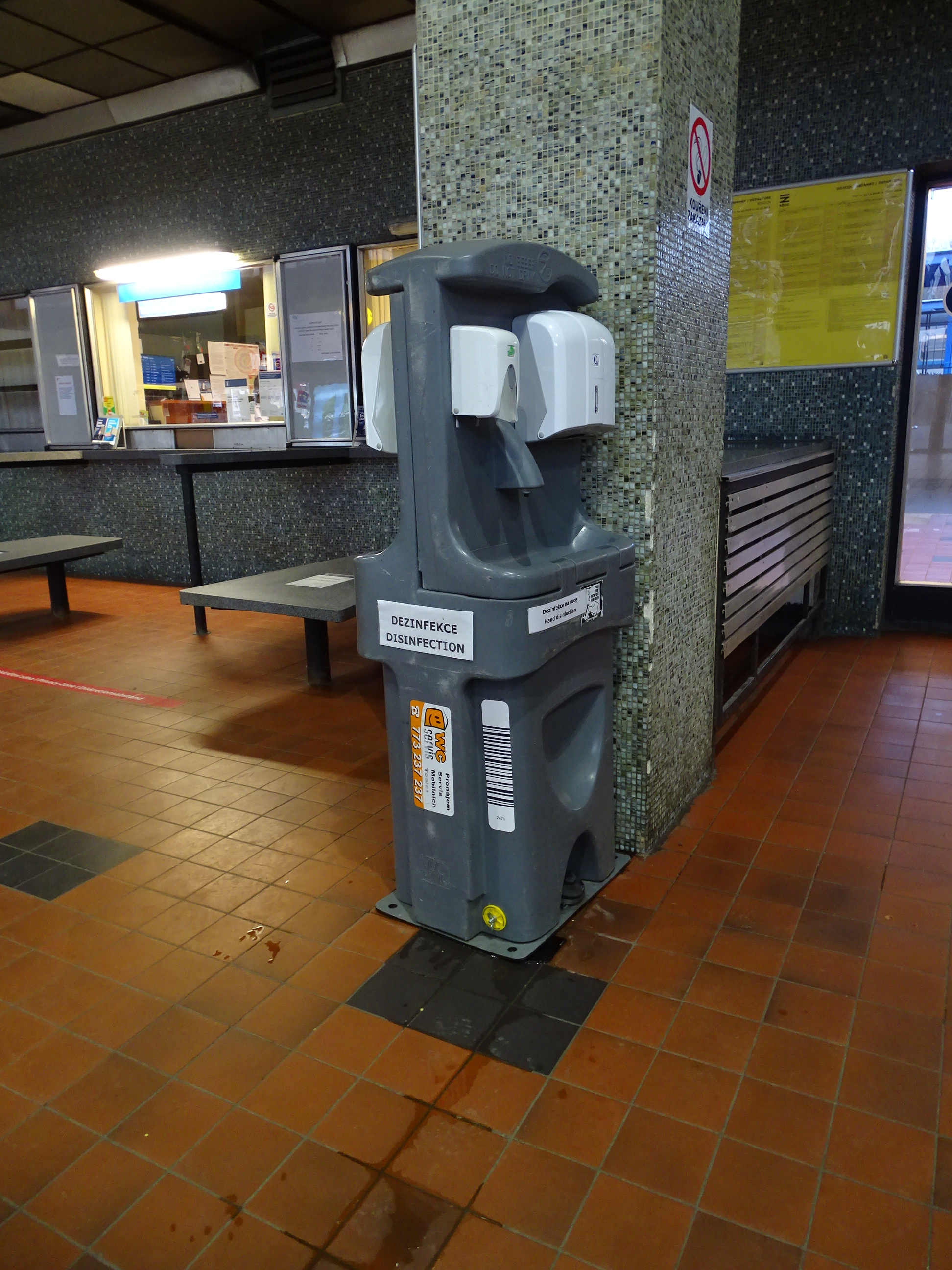 Beroun, Beroun District, Central Bohemian Region, Czechia. Train station Beroun, hand disinfection stand during the coronavirus epidemic.